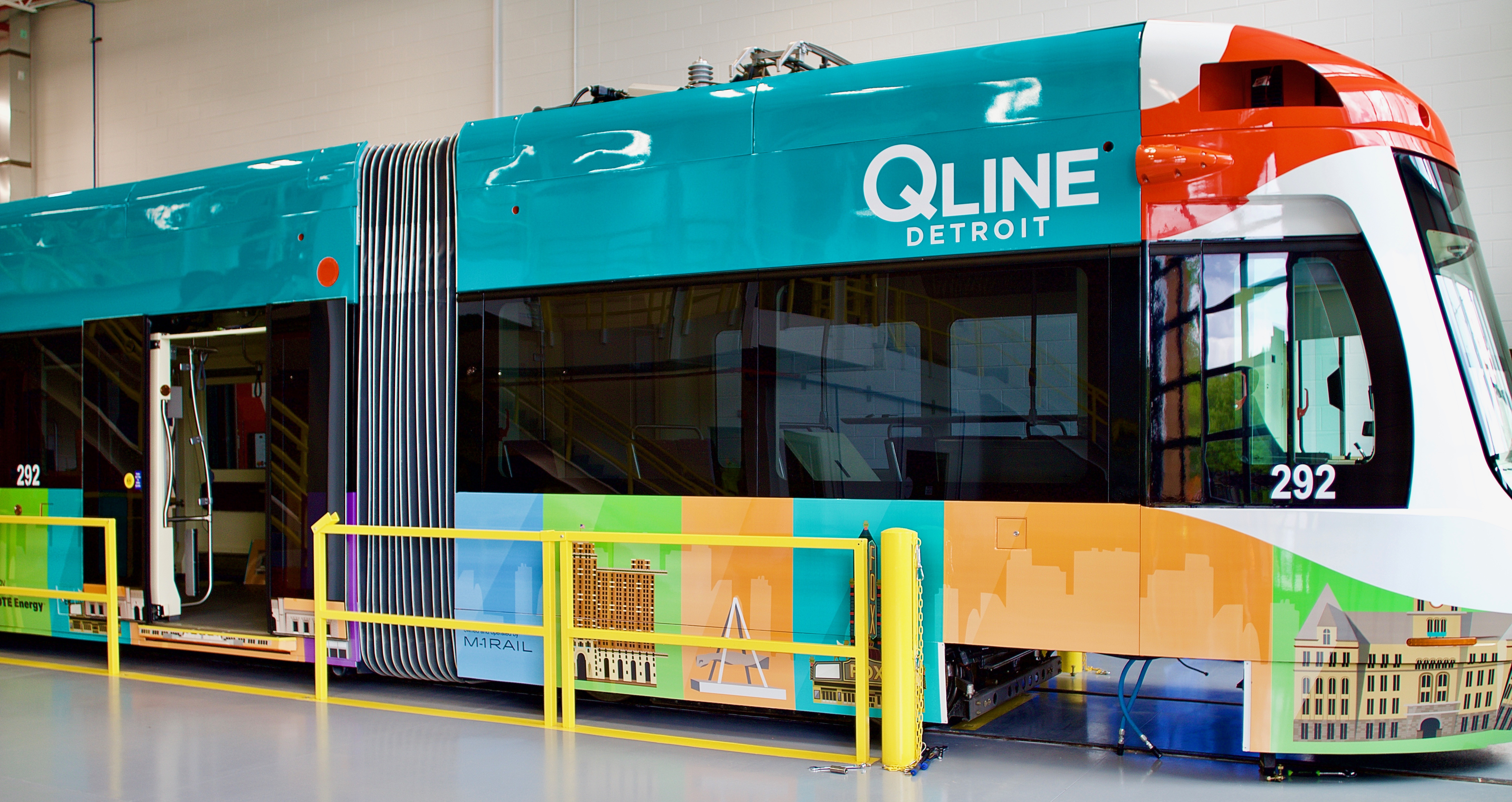 QLine streetcar in the maintenance facility in May 2017, eleven days before the opening of the line